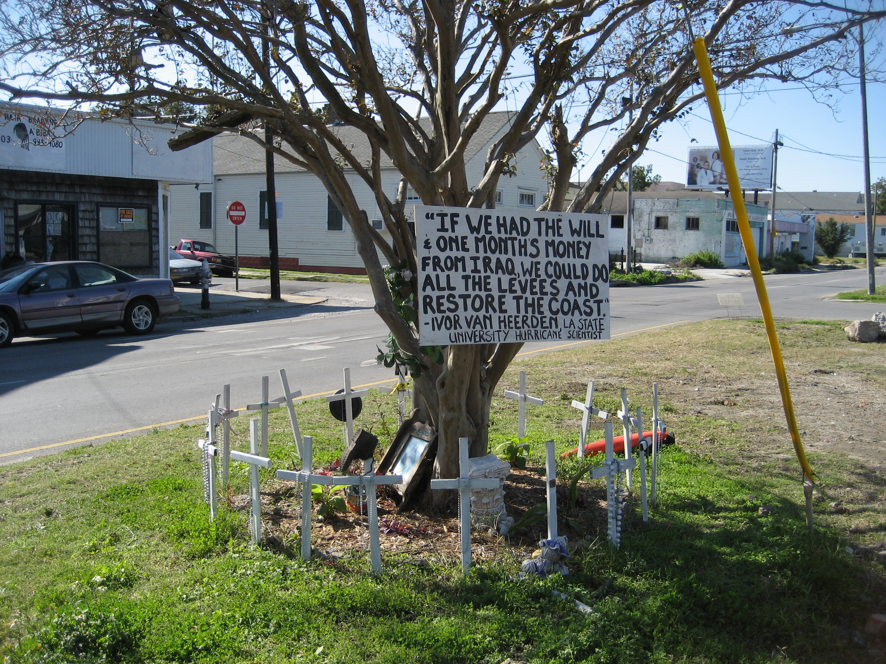 Memorial to Hurricane Katrina dead with quote by Ivor van Heerden, Bywater section of New Orleans